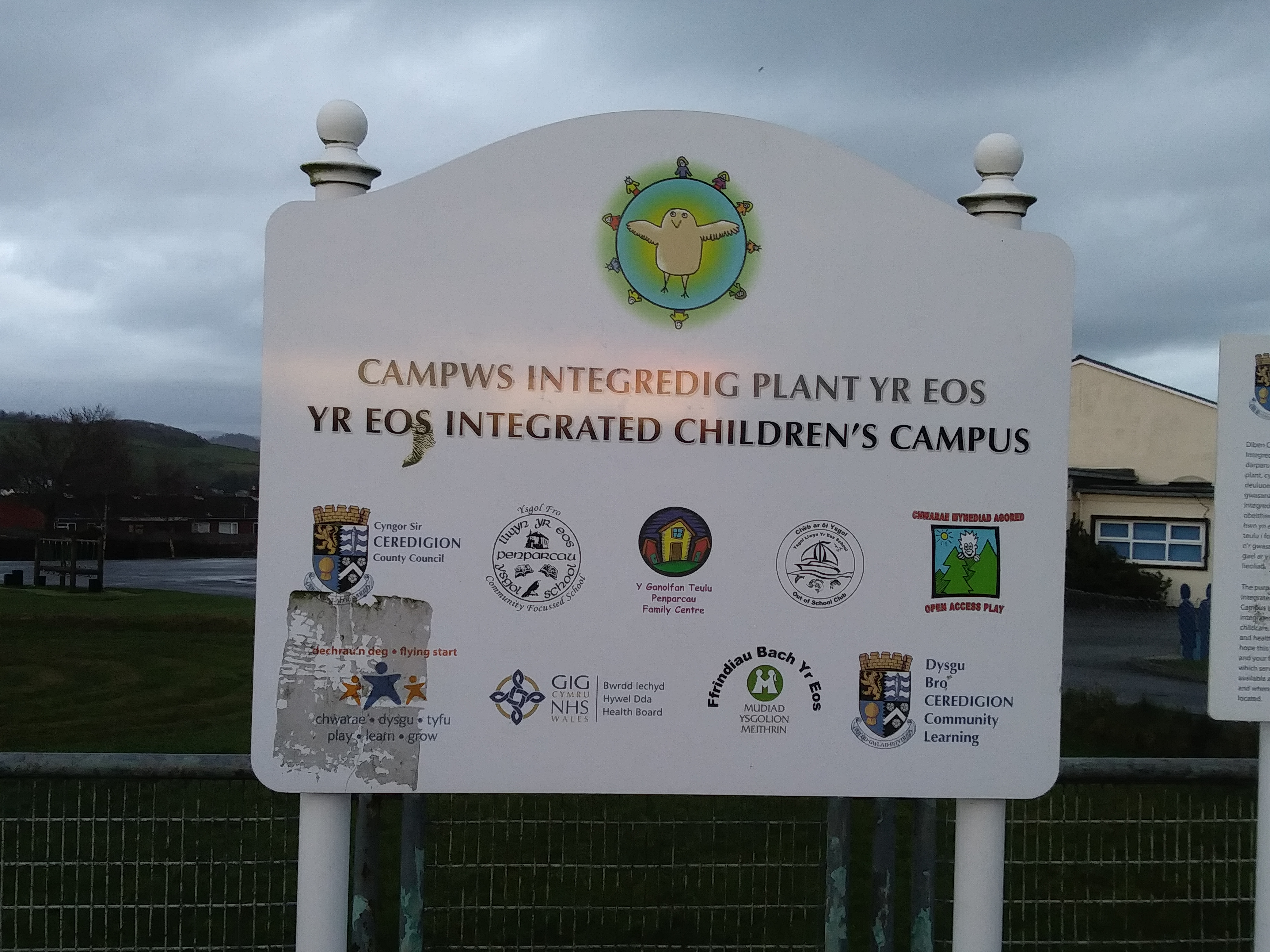 Ysgol Llwyn-yr-Eos, Penparcau, Aberystwyth, sign